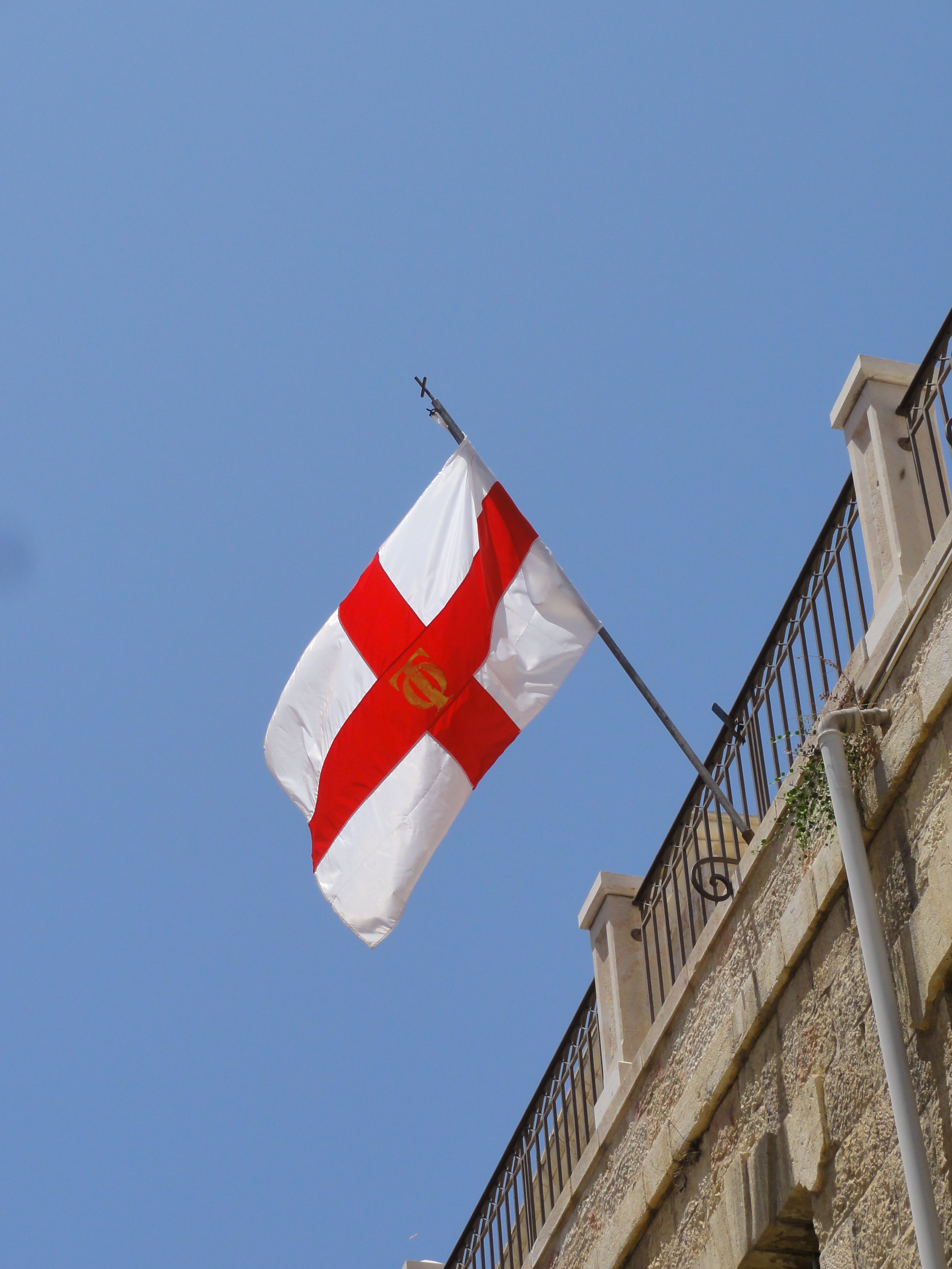 Christian quarter, Greek Orthodox Patriarchate street.